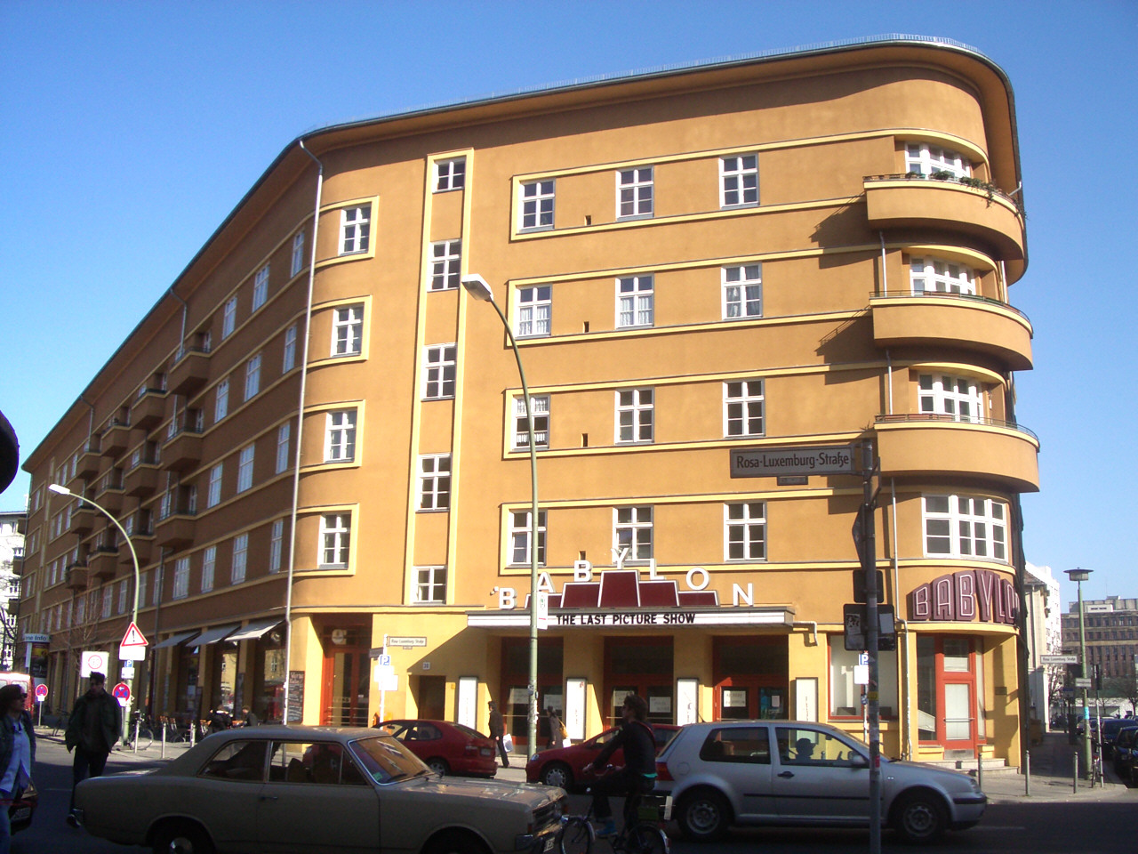 Berlin, Mitte, Rosa-Luxemburg-Platz: Babylon cinema (after closure in 2005); built by Hans Poelzig.